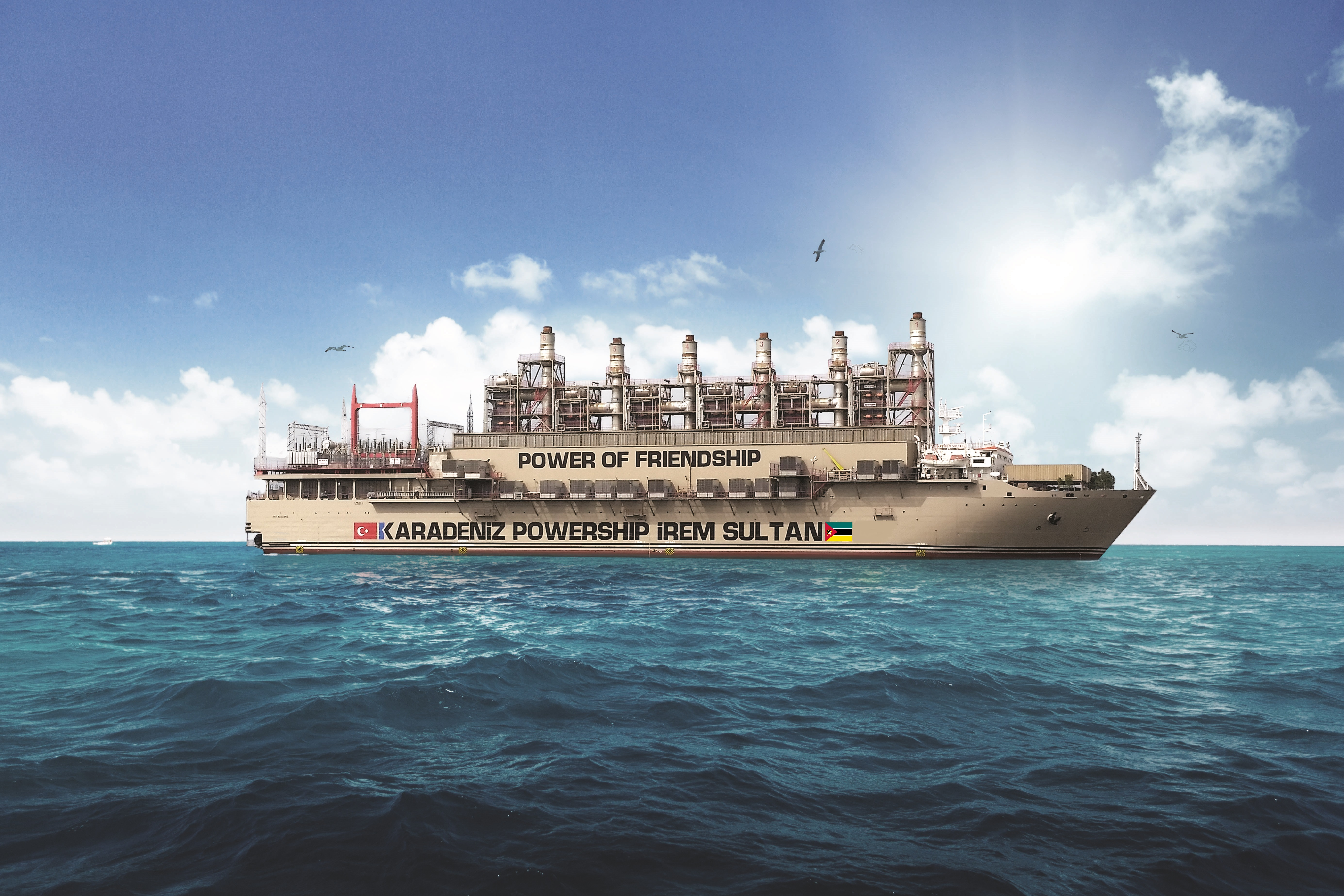 Karadeniz Powership Irem Sultan